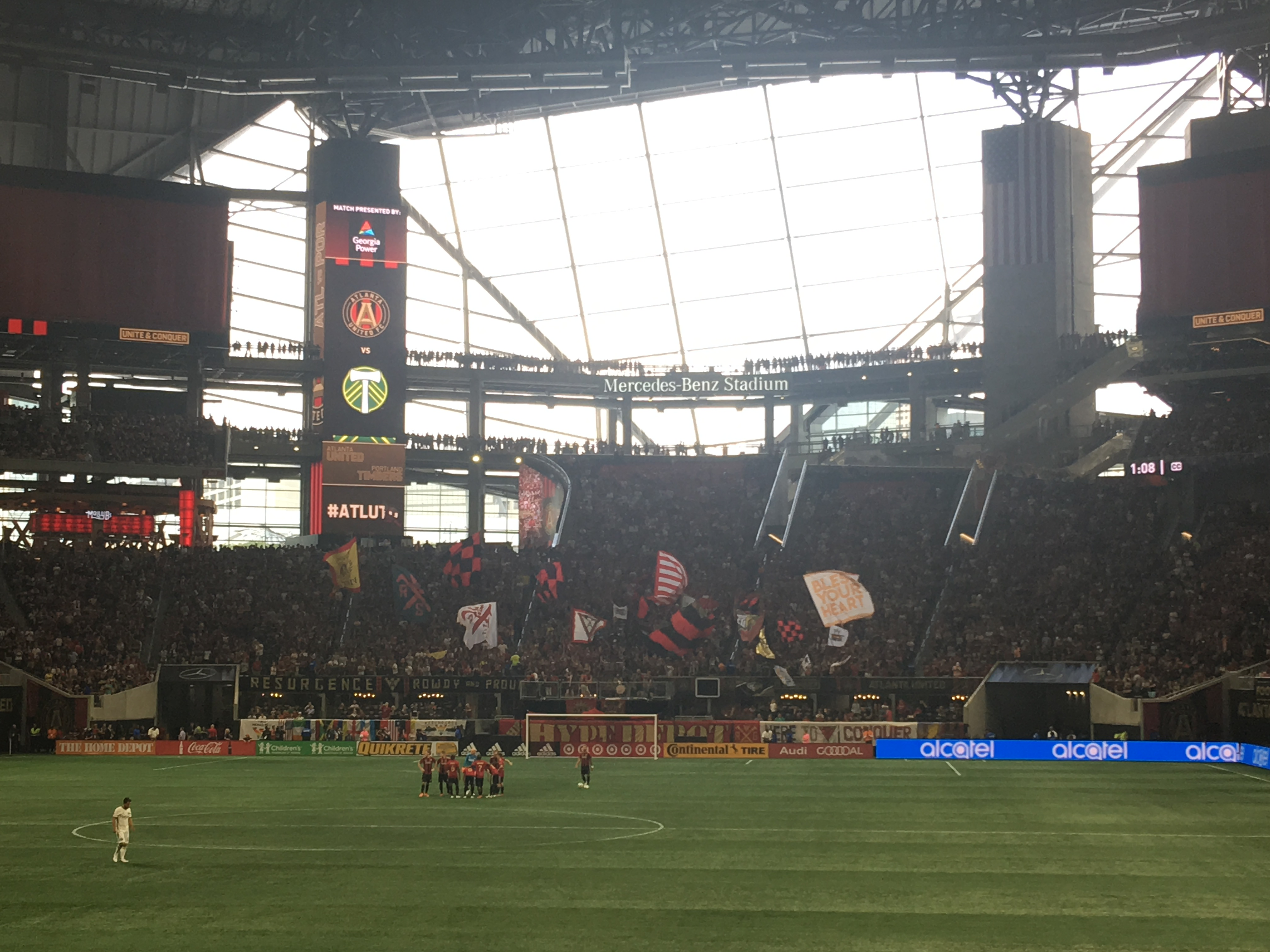 2018-06-24 - Atlanta United vs Portland Timbers